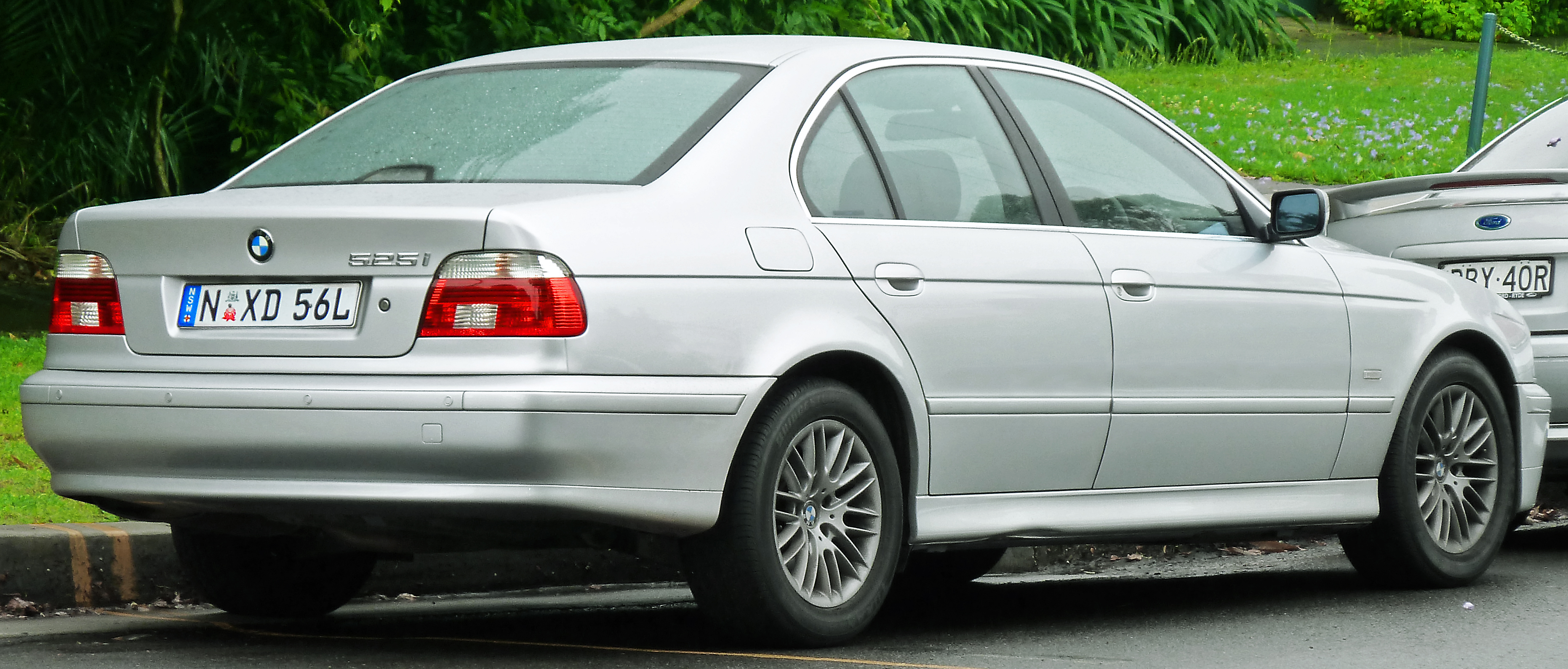 2000–2003 BMW 525i (E39) Executive sedan. Photographed in Roseville, New South Wales, Australia.